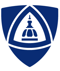 hlogo